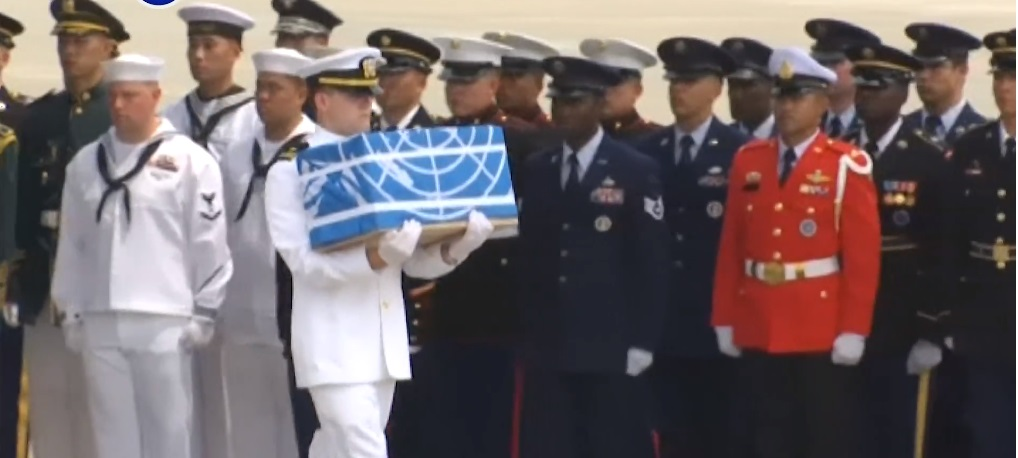 After Trump-Kim Summit, North Korea searched and returned the US War Remains of Korean War 1950-1953